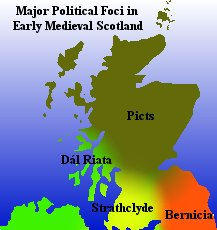 A map of Early Medieval Scotland showing major political foci by colour